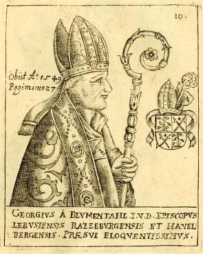 Portrait of Georg von Blumenthal